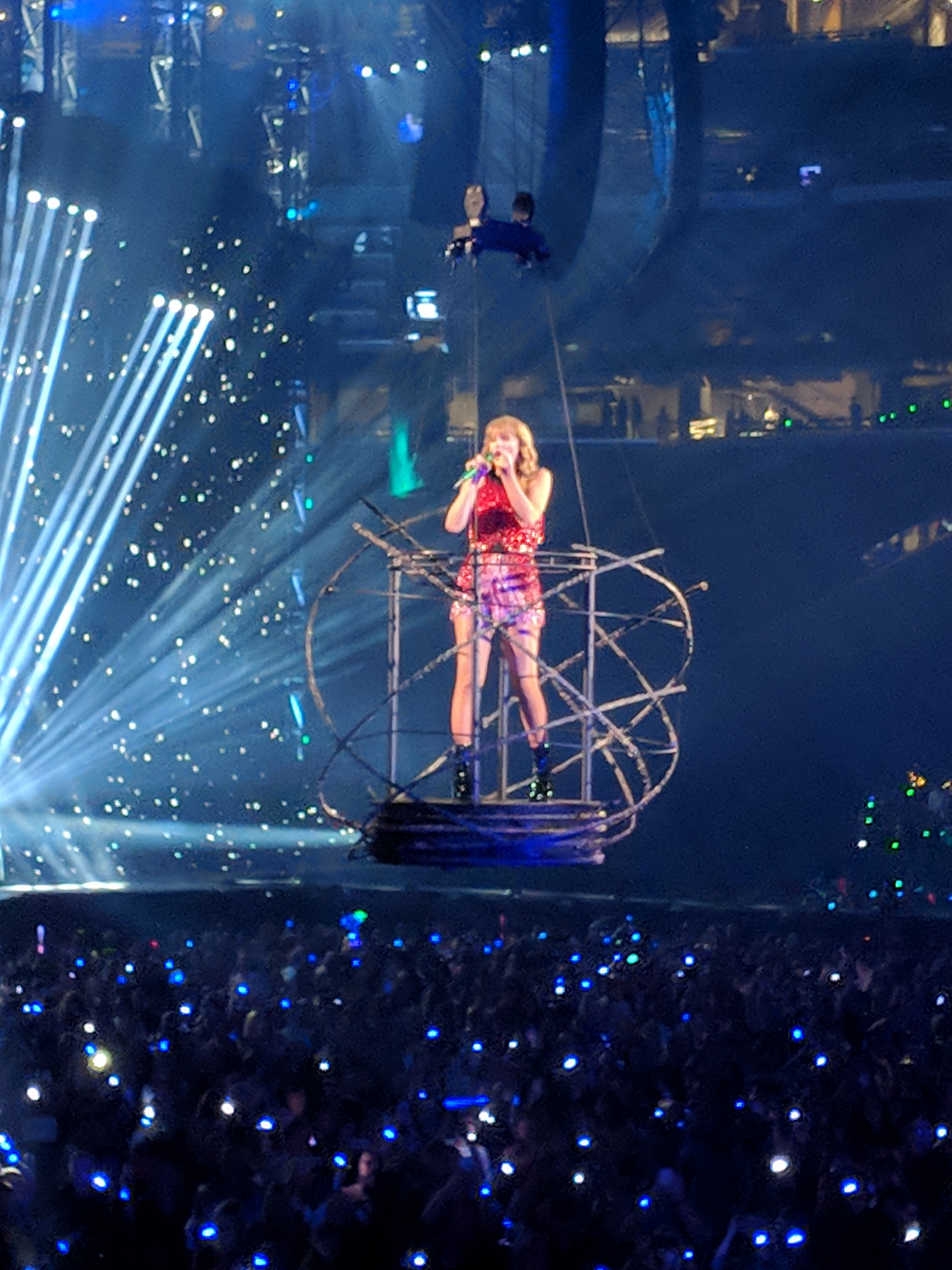 Taylor singing "Delicate" from a hanging platform transporting her over the crowd